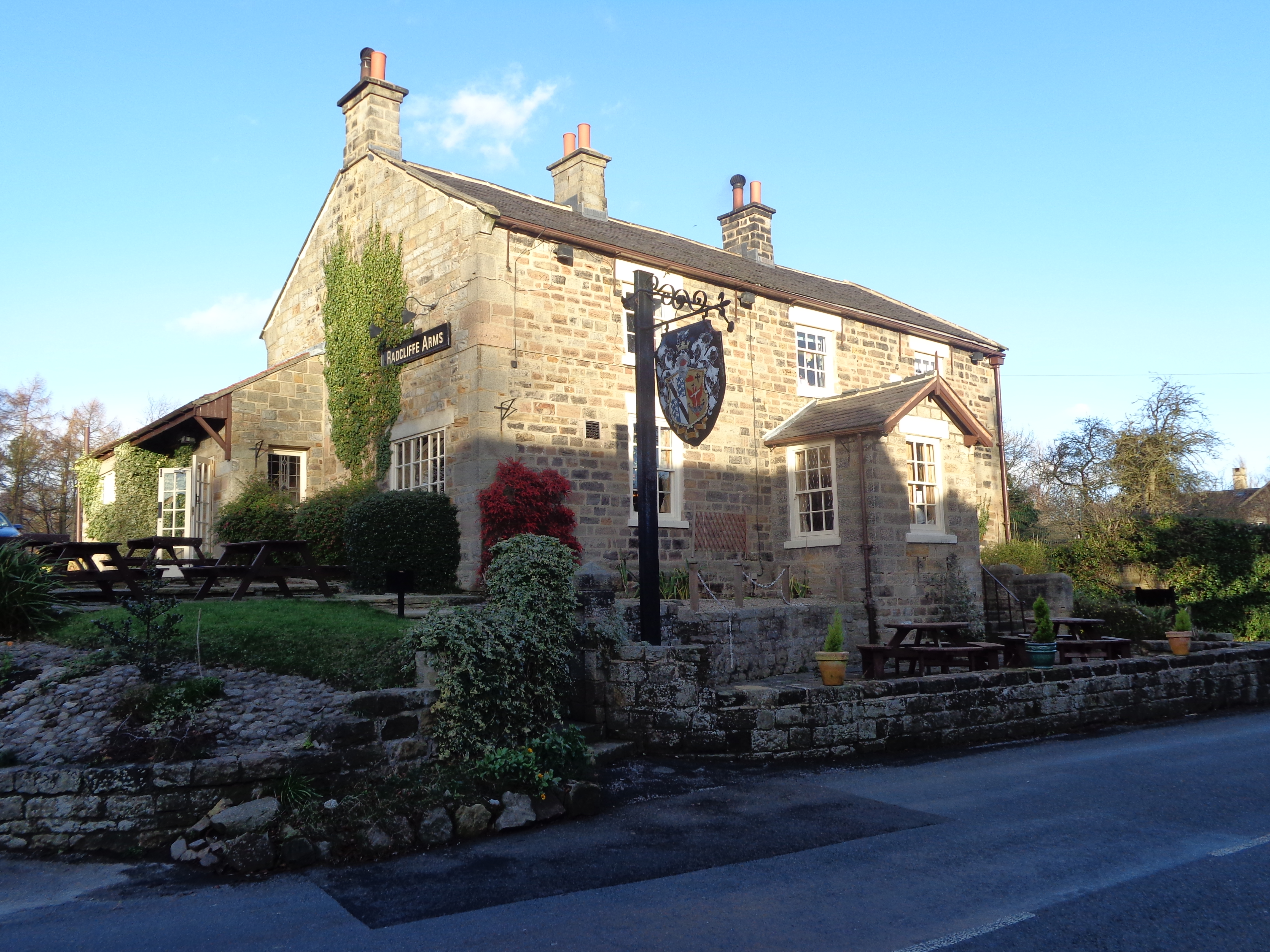 Radcliffe Arms, Pannal Road, Follifoot, North Yorkshire. Taken on the afternoon of Tuesday the 24th of December 2013.